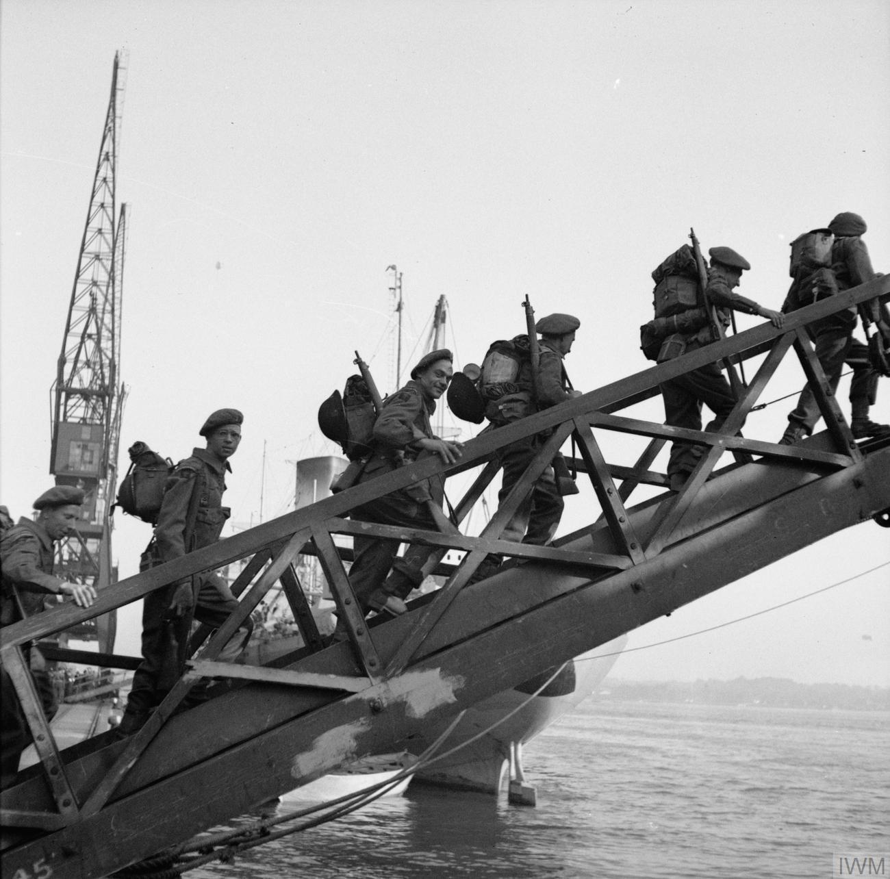 Preparations For the Allied Invasion of Europe 1944 Troops from 6th or 7th Battalion The Green Howards, 69th Brigade, 50th (Northumbrian) Division, embarking onto the LSI 'SS Empire Lance' at Southampton, 29 May 1944.